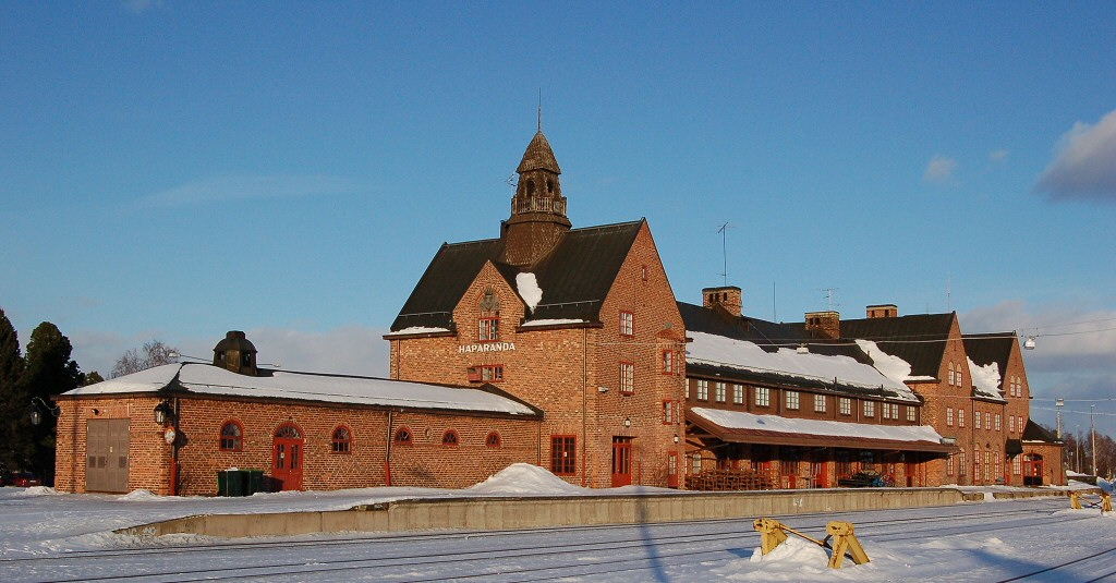 Haparanda railway station, March 19, 2006.